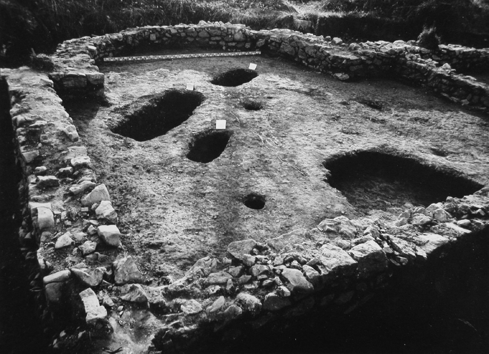 Remains of the late antique building in Babina Luka, Valjevo